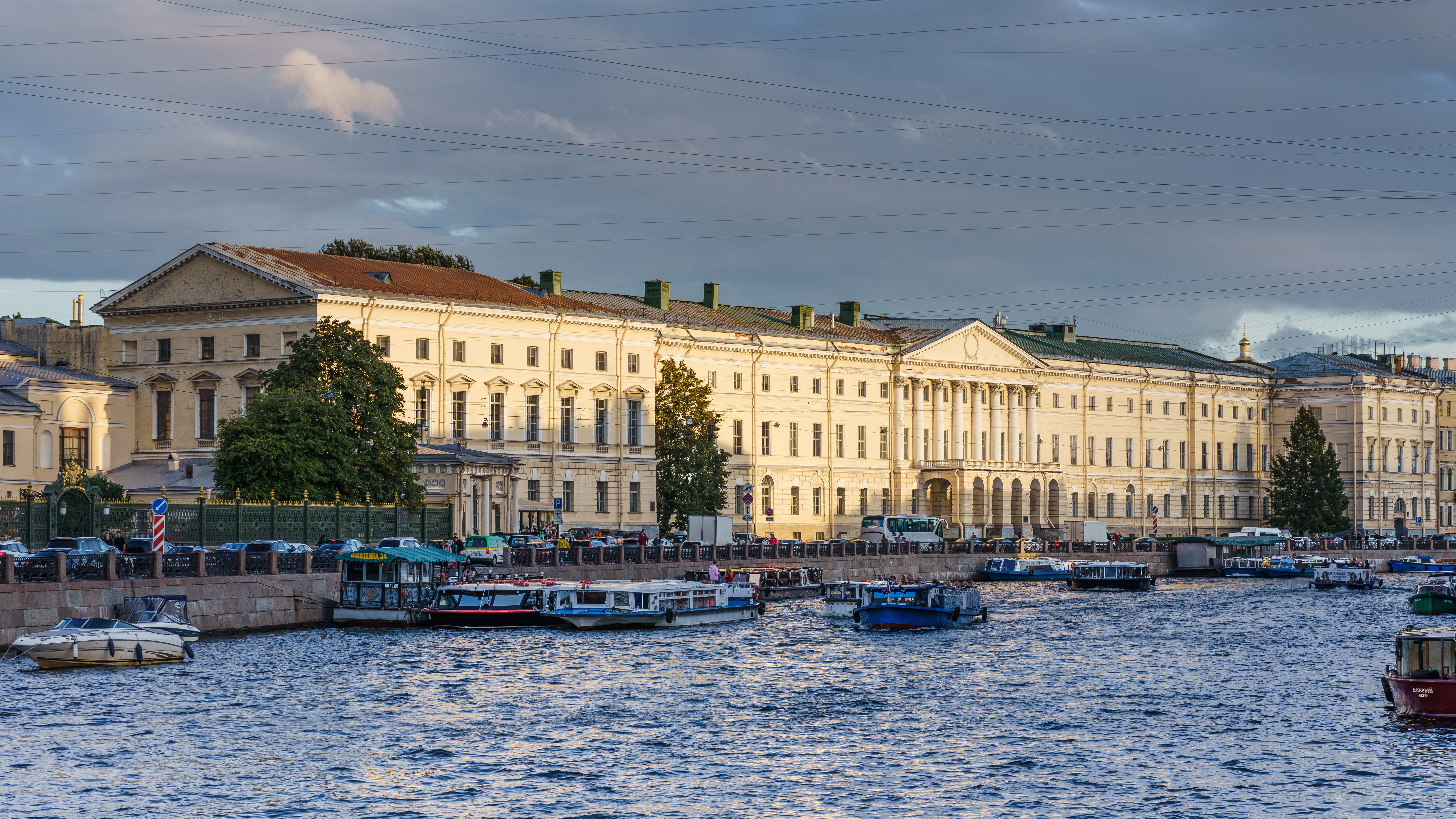 Former Catherine Institute at Fontanka (nowadays one of the Russian National Library buildings) in Saint Petersburg, Russia